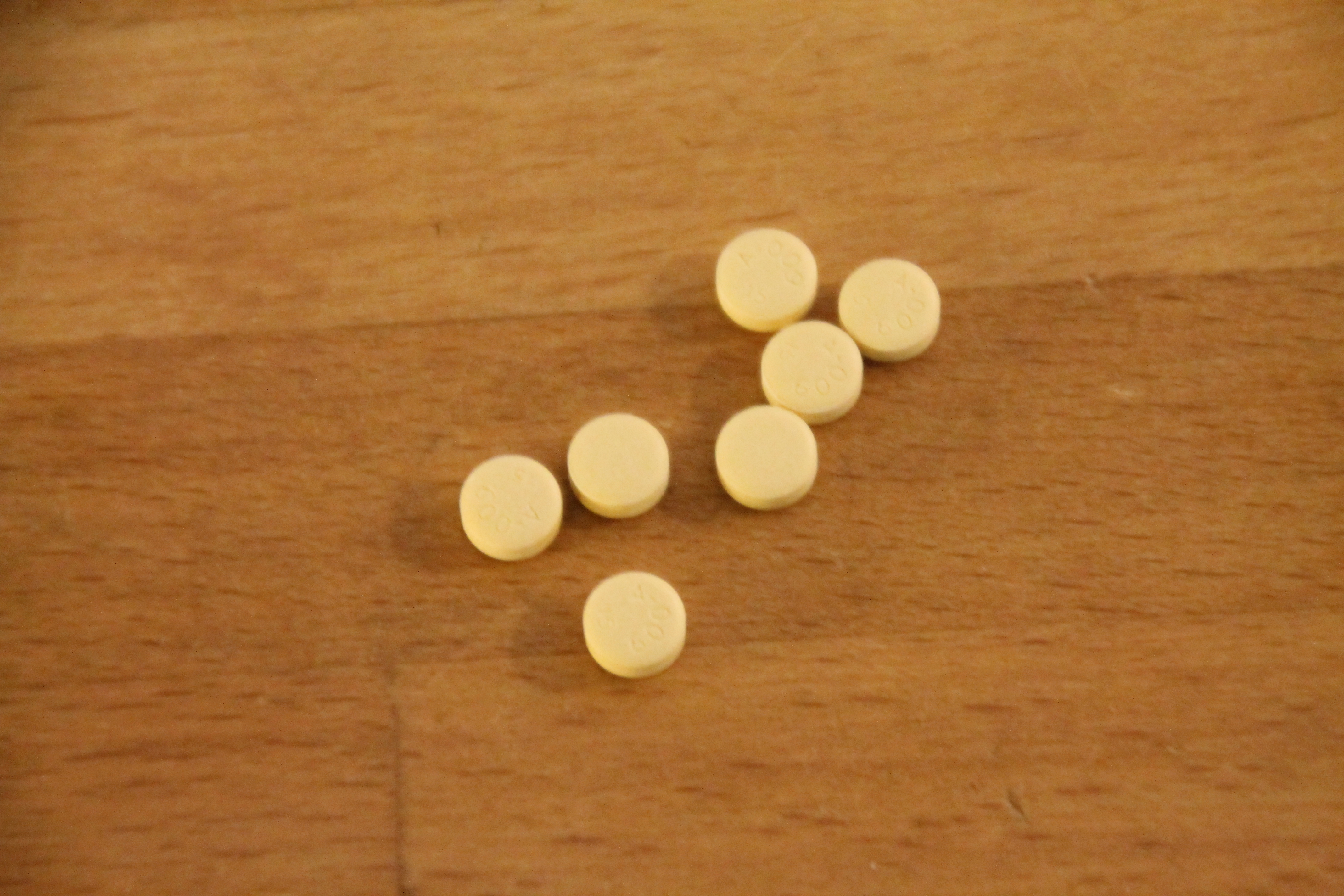 Abilify (aripiprazole) 15mg -tablets.